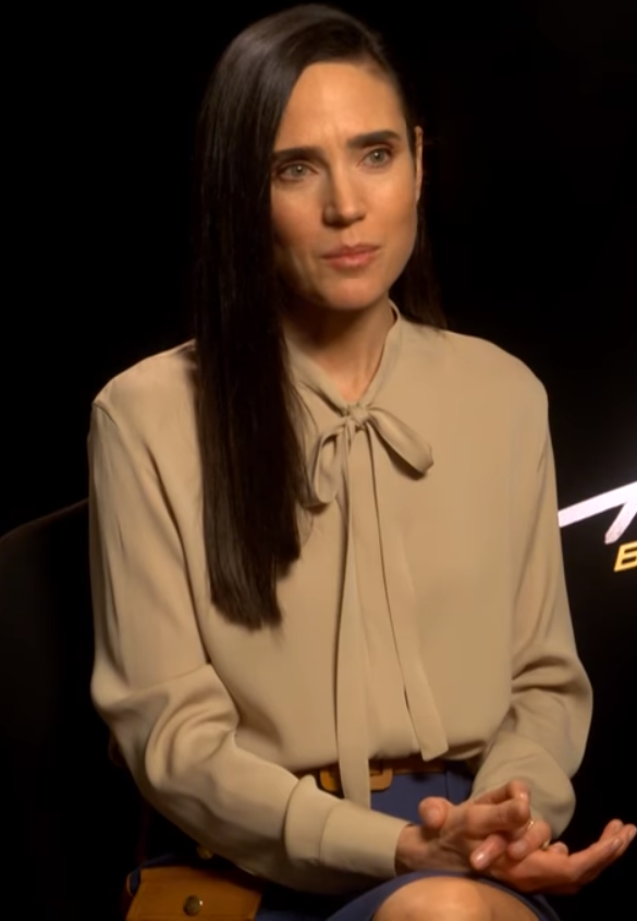 Rosa Salazar and the cast of sci-fi epic Alita: Battle Angel play a hilarious game of SNOG, MARRY, AVOID: CYBORG EDITION, and give us all their behind the scenes goss on the unique way they filmed the blockbuster.